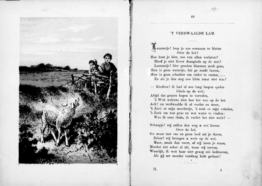 Children's song 'Het verdwaalde lam' from songbook with children's songs of Jan Pieter Heije: "Kinderliederen" (Amsterdam/Nijmegen, print of 1847; 1st print 1843).